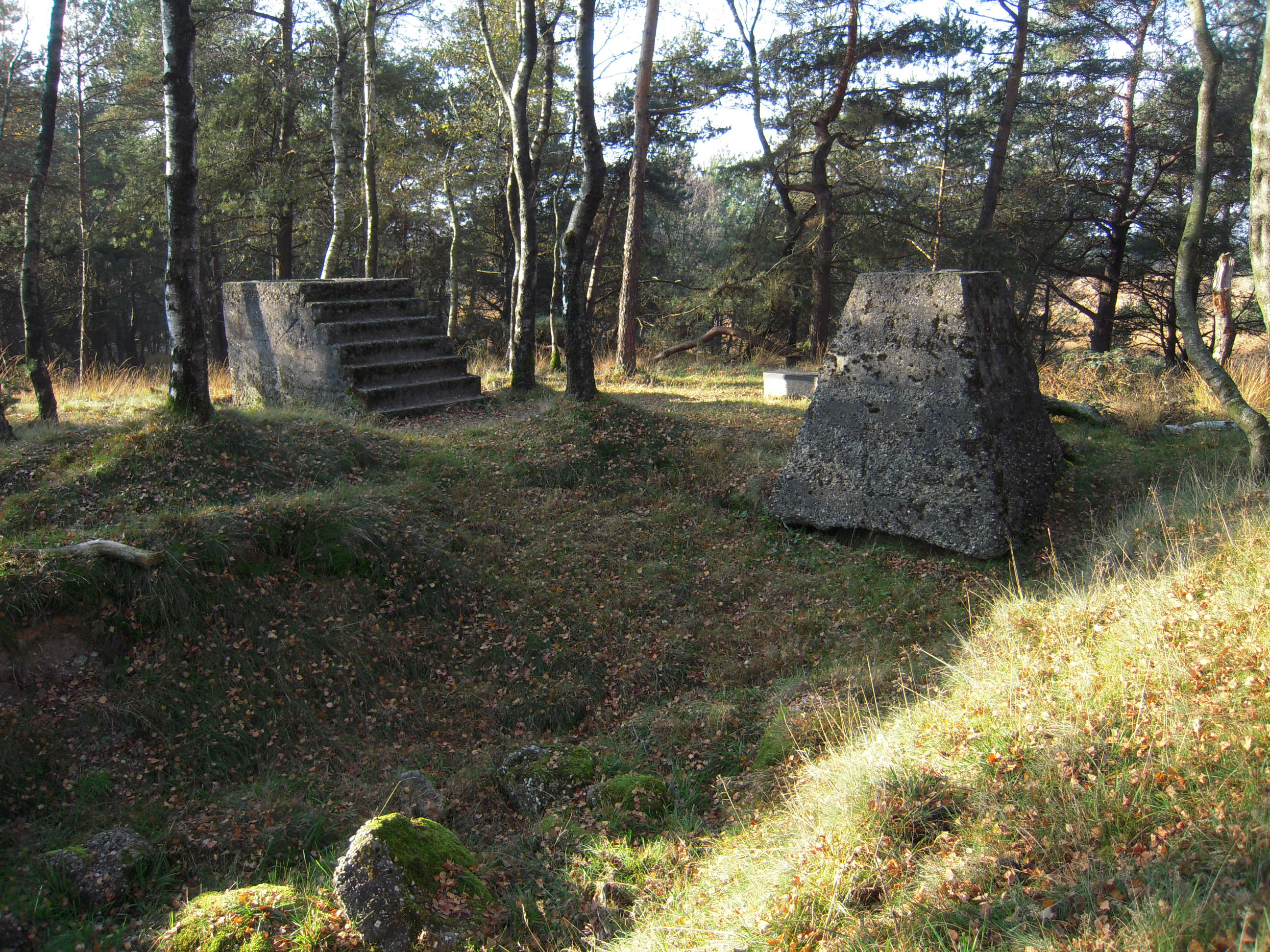 Ruins of Wordwar II German radio surveillance station in Veluwe, Netherlands